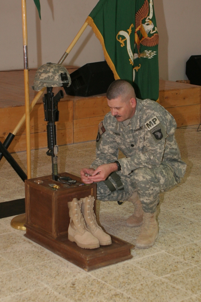 Army Lt. Col. Daryl Johnson, commanding officer, 504th Military Police Battalion, remembers Army Pfc. Aaron Ward during a memorial service at the chapel on Al Asad Air Base, Iraq